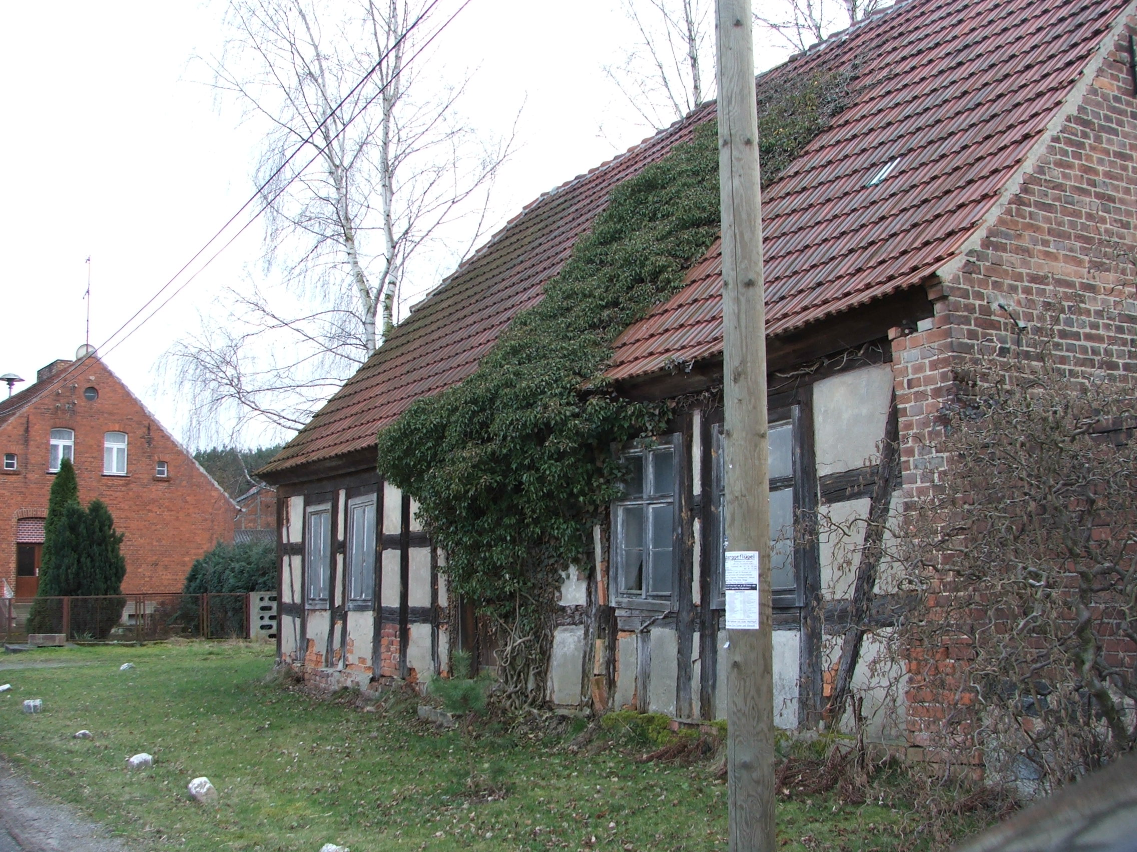 old farmhouse in Krassig